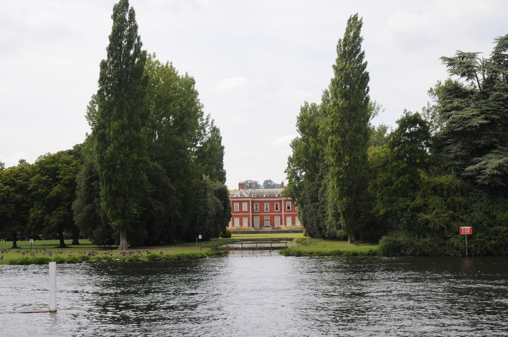 Fawley Court, Buckinghamshire.